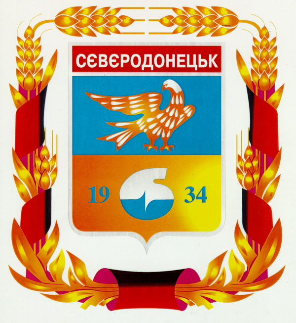 Coat of arms of Syevyerodonetsk, Luhansk Oblast, Ukraine